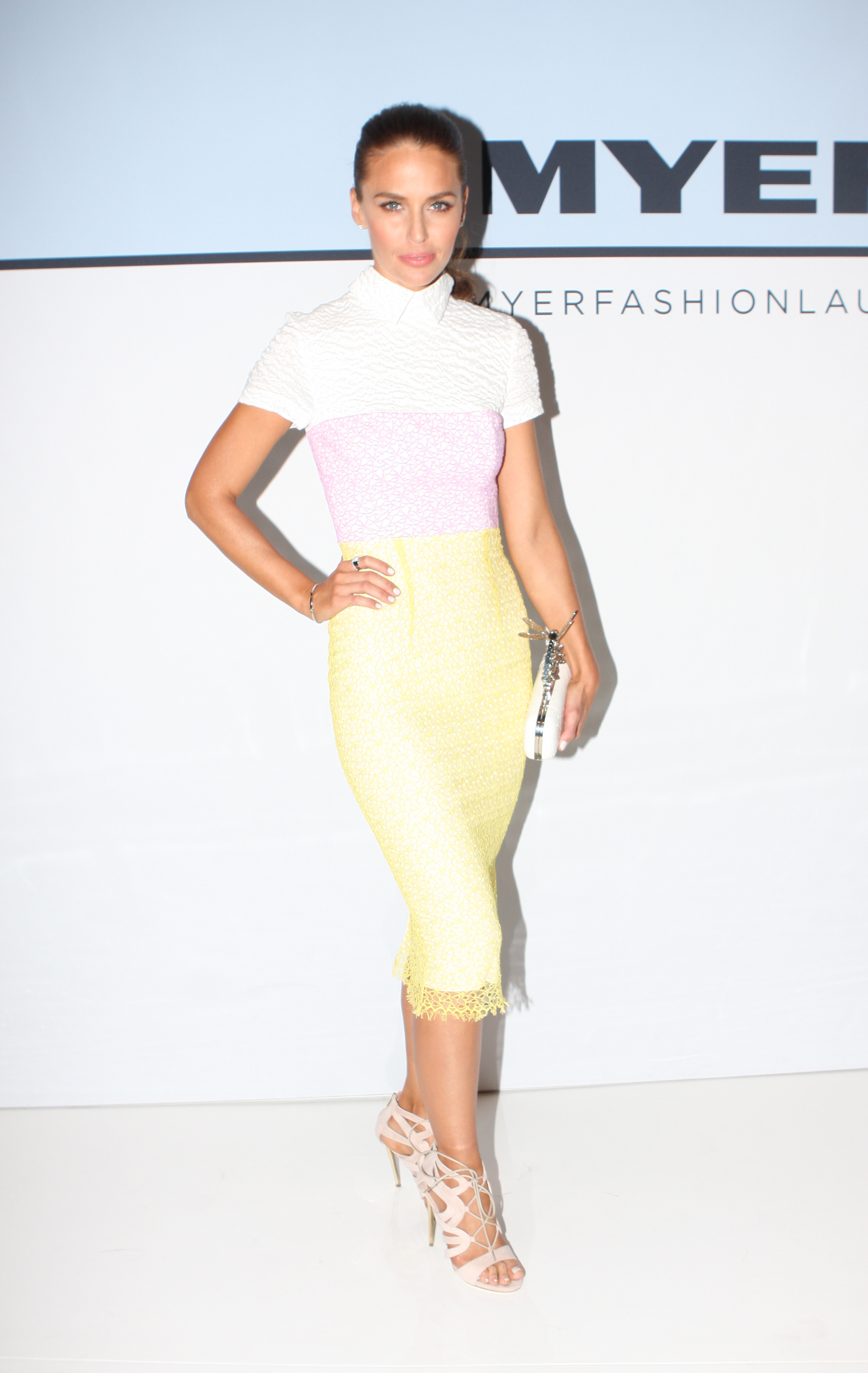 Jodi Anasta (former Jodi Gordon) at Myer Fashion Spring Launch 2015 Red Carpet